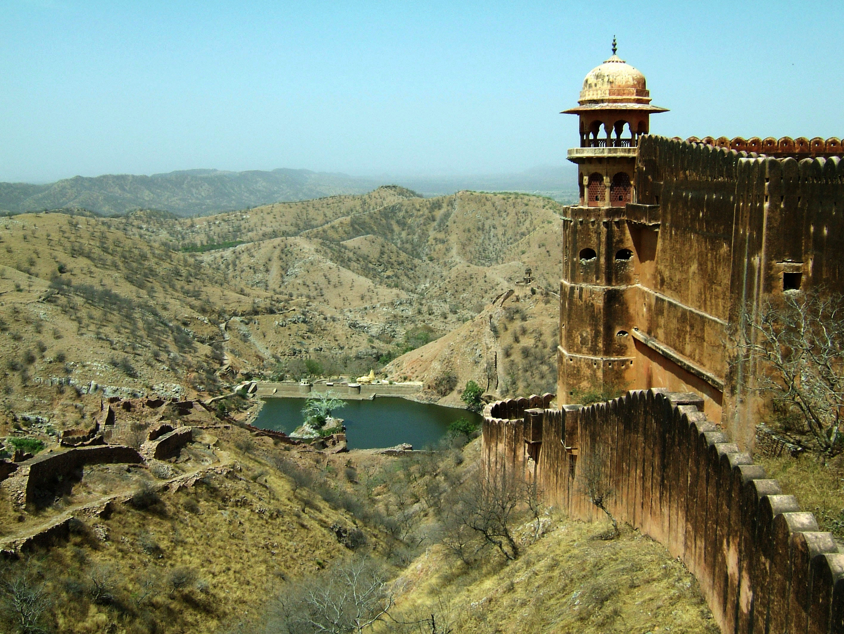 Jaigarh Fort, Jaipur, Rajasthan